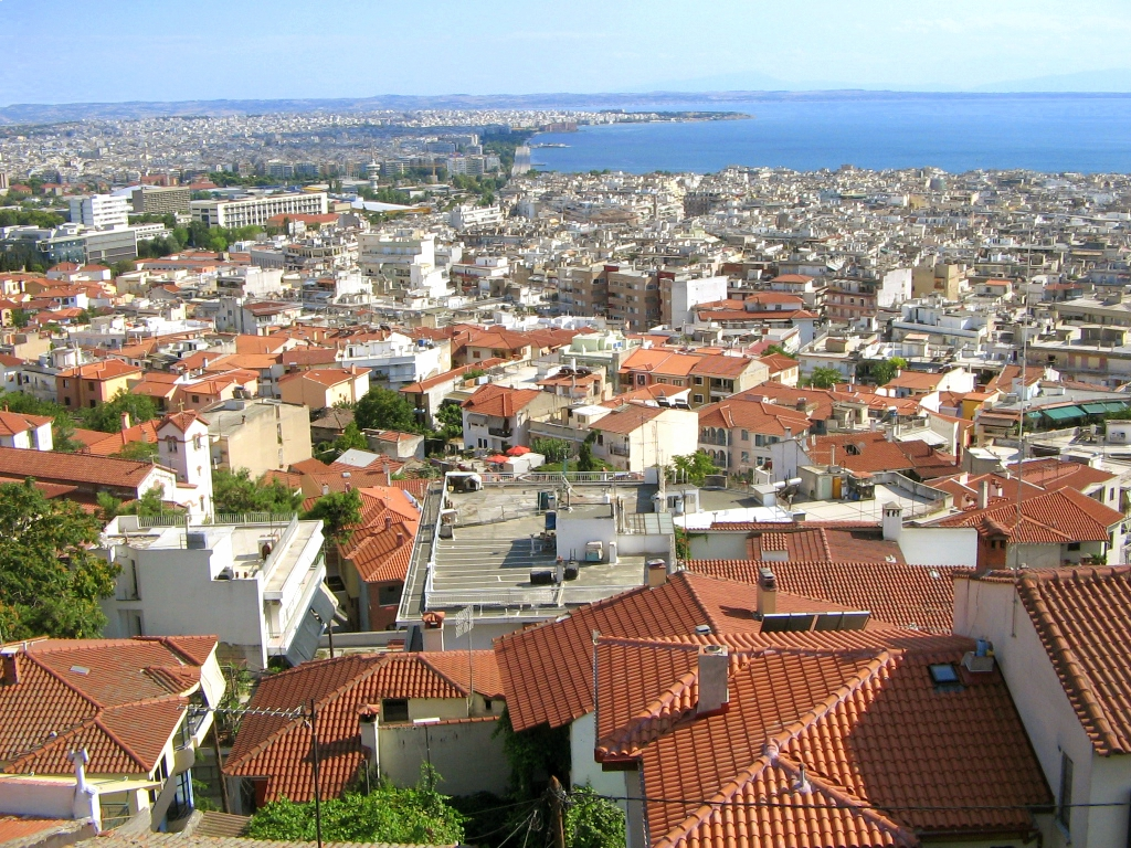 Looking down at rooftops in Thessaloniki, Greece.